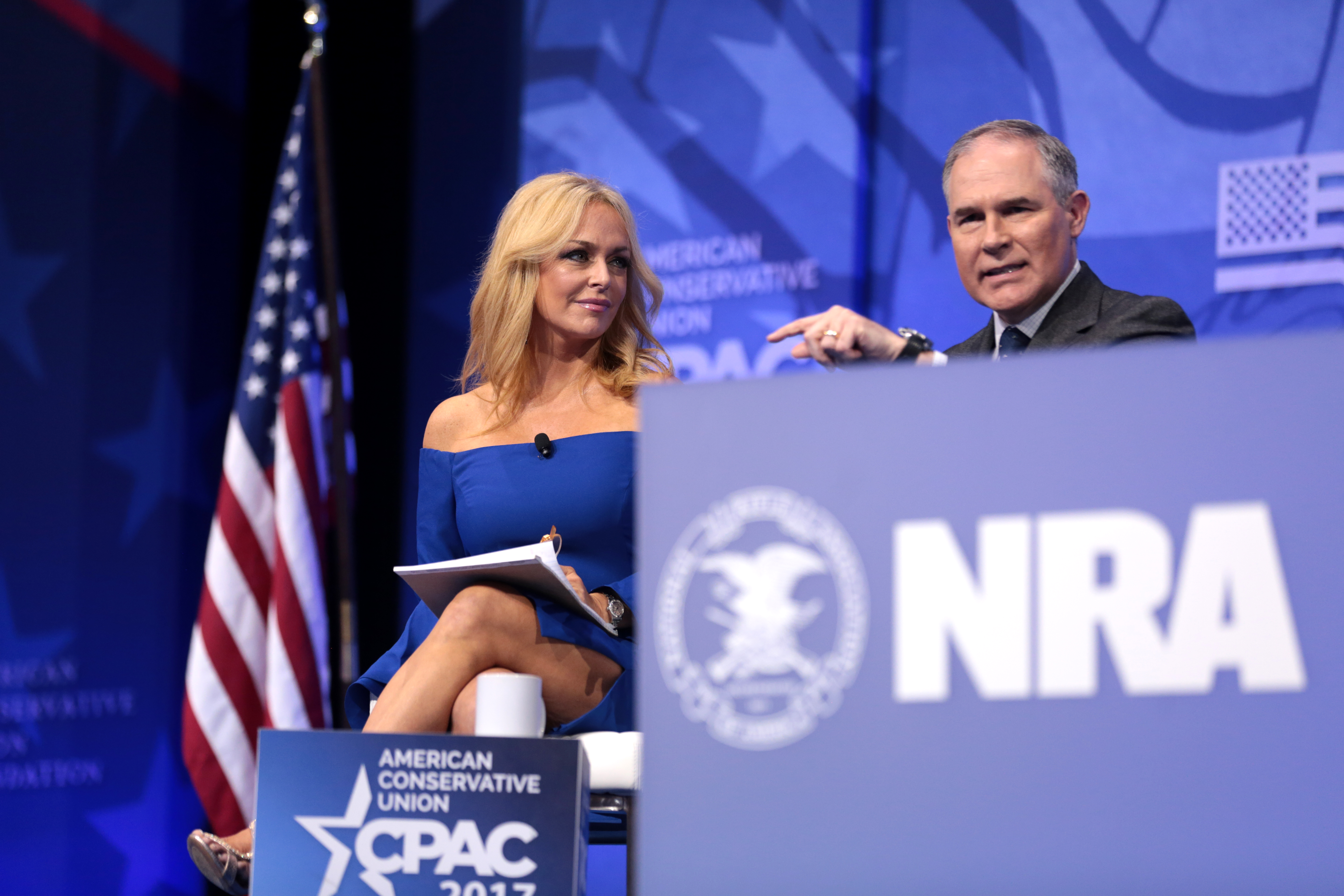 Gina Loudon and Adminstrator of the Environmental Protection Agency Scott Pruitt speaking at the 2017 Conservative Political Action Conference (CPAC) in National Harbor, Maryland.